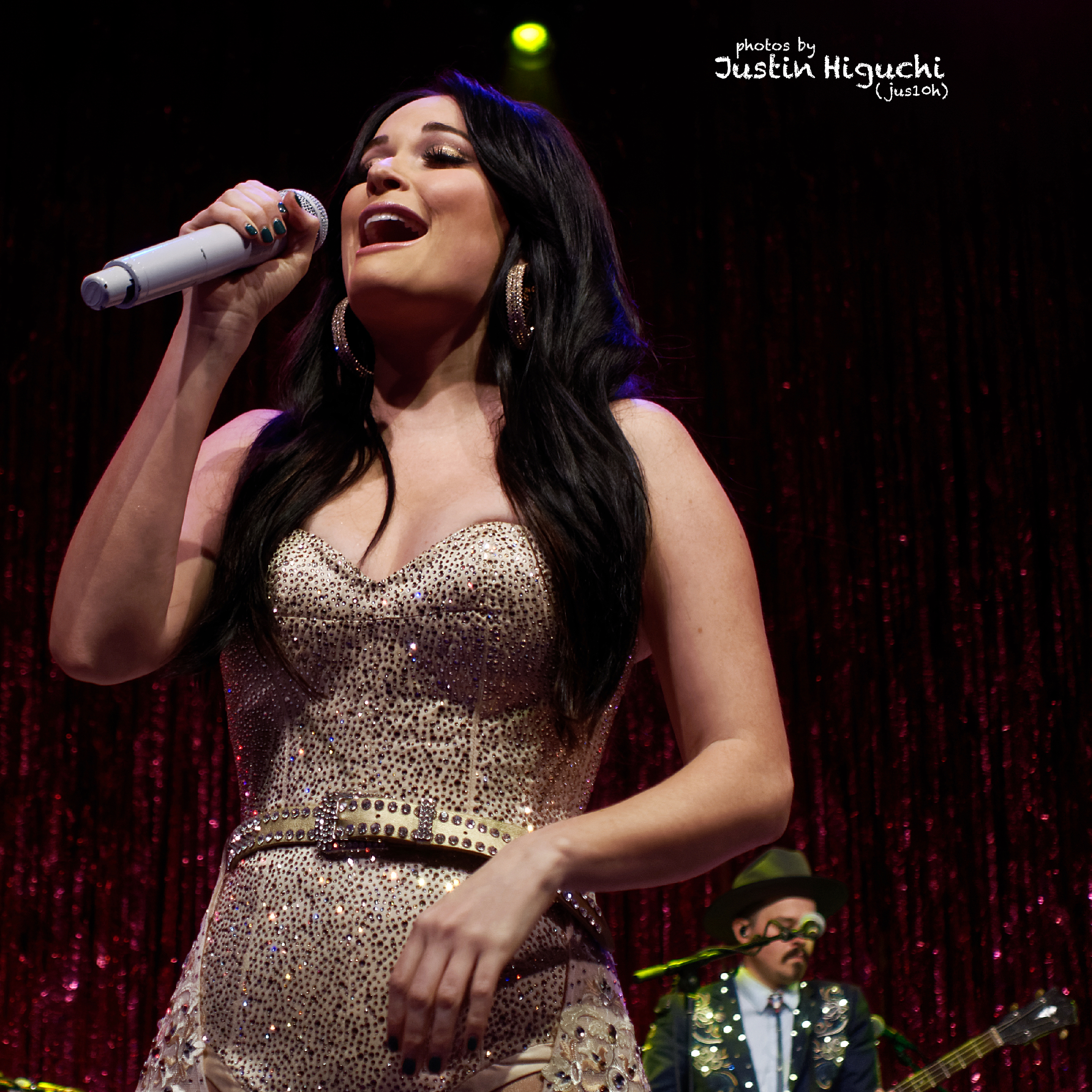 Kacey Musgraves performing live at The Greek Theatre in Los Angeles California on Wednesday September 14th 2016.